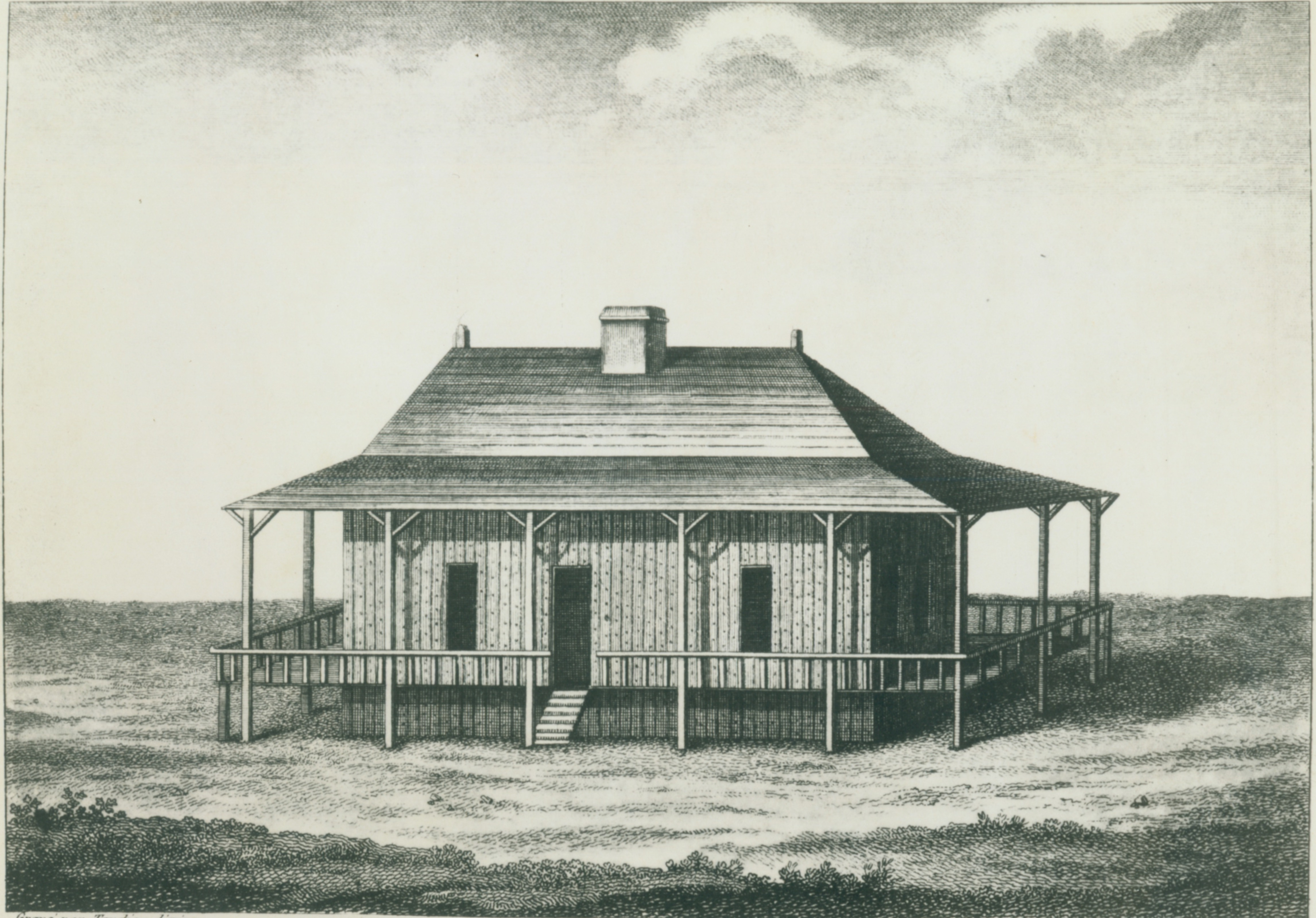 Horizontal copy of an engraving from A Journey in North America, showing a French Creole, late 18th century, house formed of upright hewn timbers and sharp pitched roof.Title: "French Habitation in the Country of the Illinois."